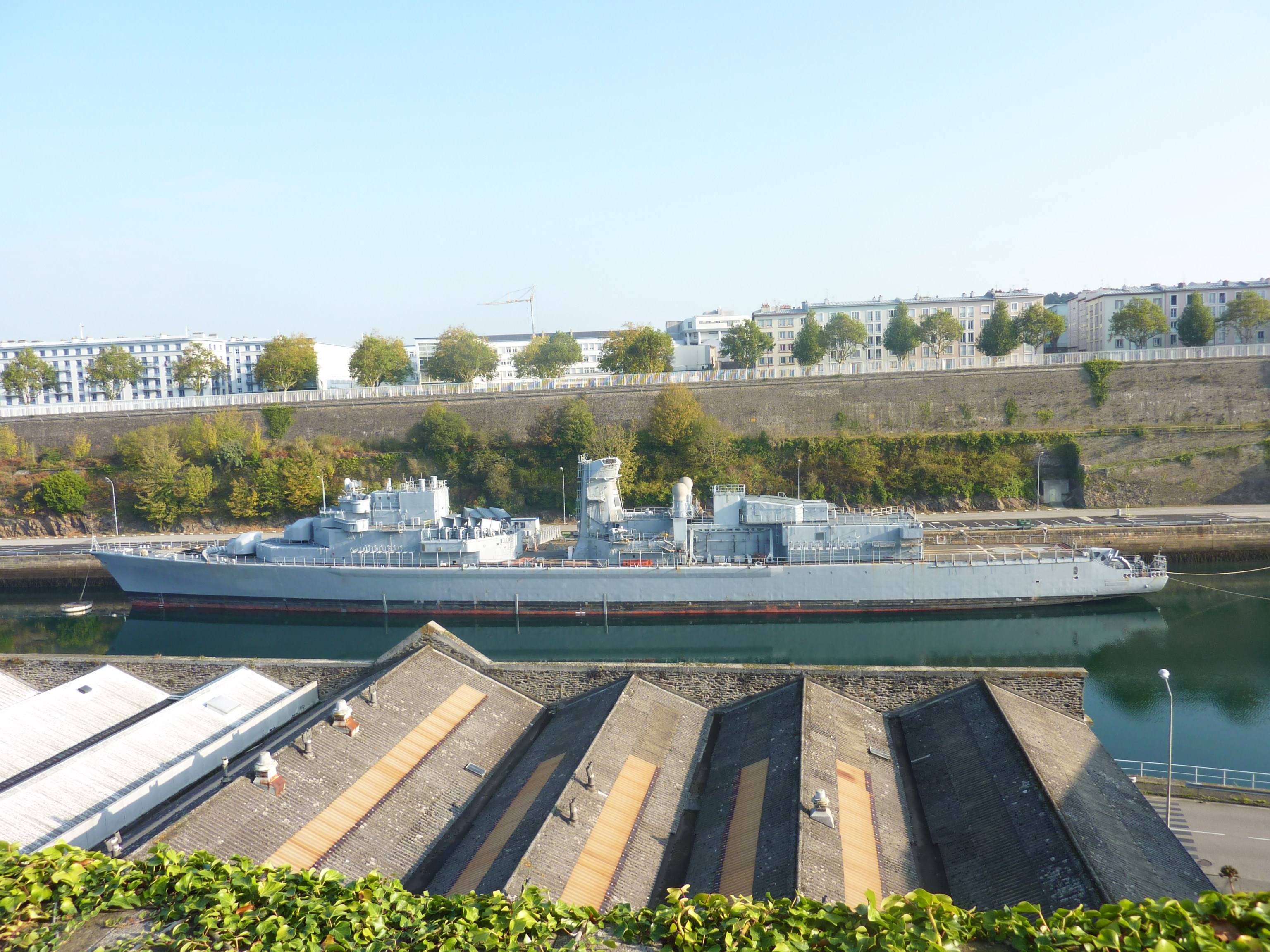 The former Tourville (D 610), decomissioned and planned for scrapping, moored to a pier of the Penfeld